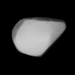 3D convex shape model of 885 Ulrike, computed using light curve inversion techniques. J. Hanuš, J. Ďurech, M. Brož, B. D. Warner (June 2011). "A study of asteroid pole-latitude distribution based on an extended set of shape models derived by the lightcurve inversion method". Astronomy and Astrophysics 530: A134. ISSN 0004-6361. arXiv